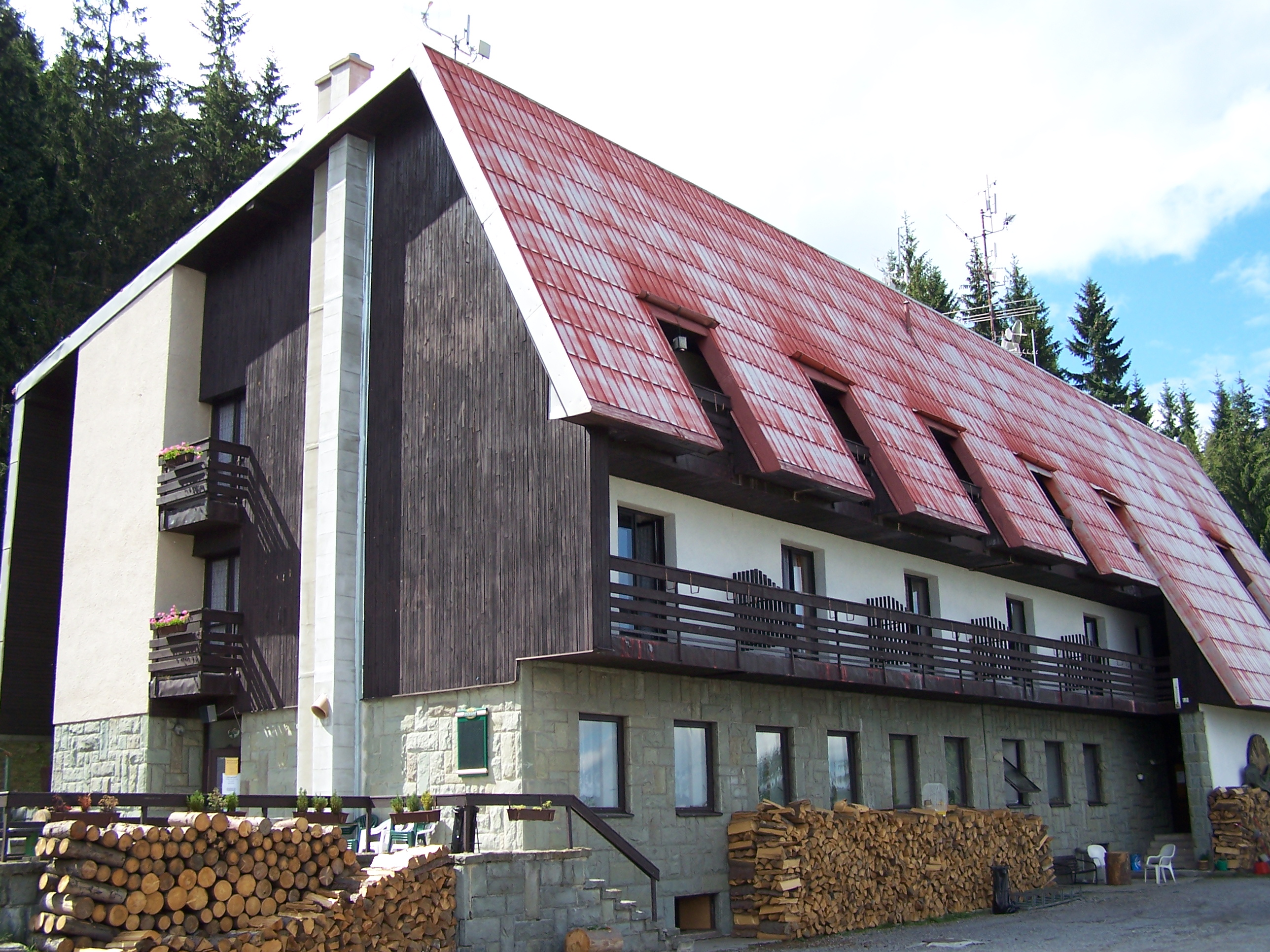 Mountain tourist hut at Kozubová (Kozubowa) mountain, Moravian-Silesian Beskids mountain range, Czech Republic